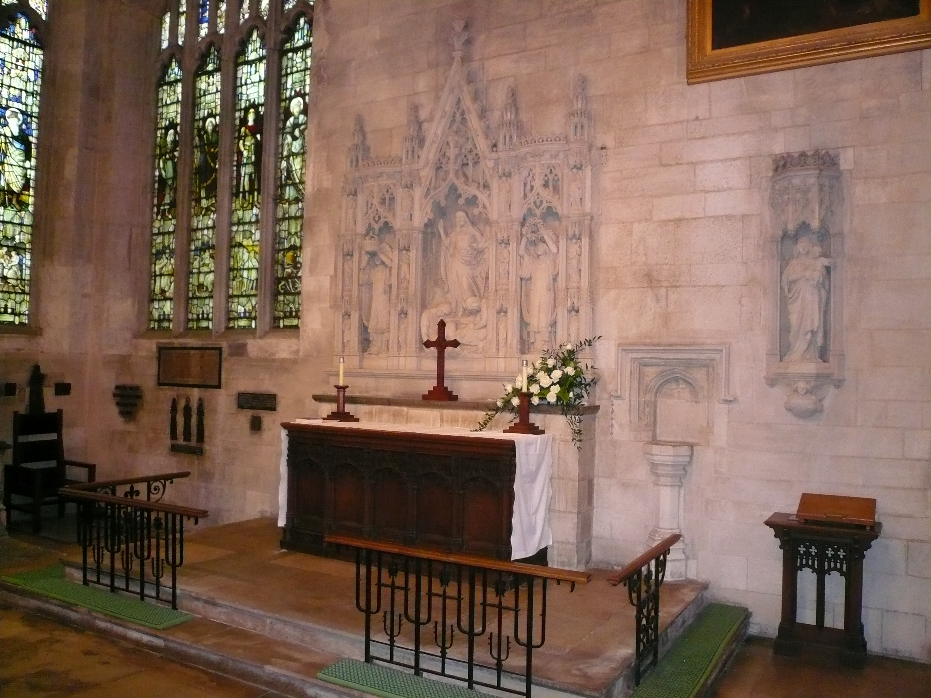 Photograph of the Wenlock Chapel in St Mary's (Luton). (July 2007)